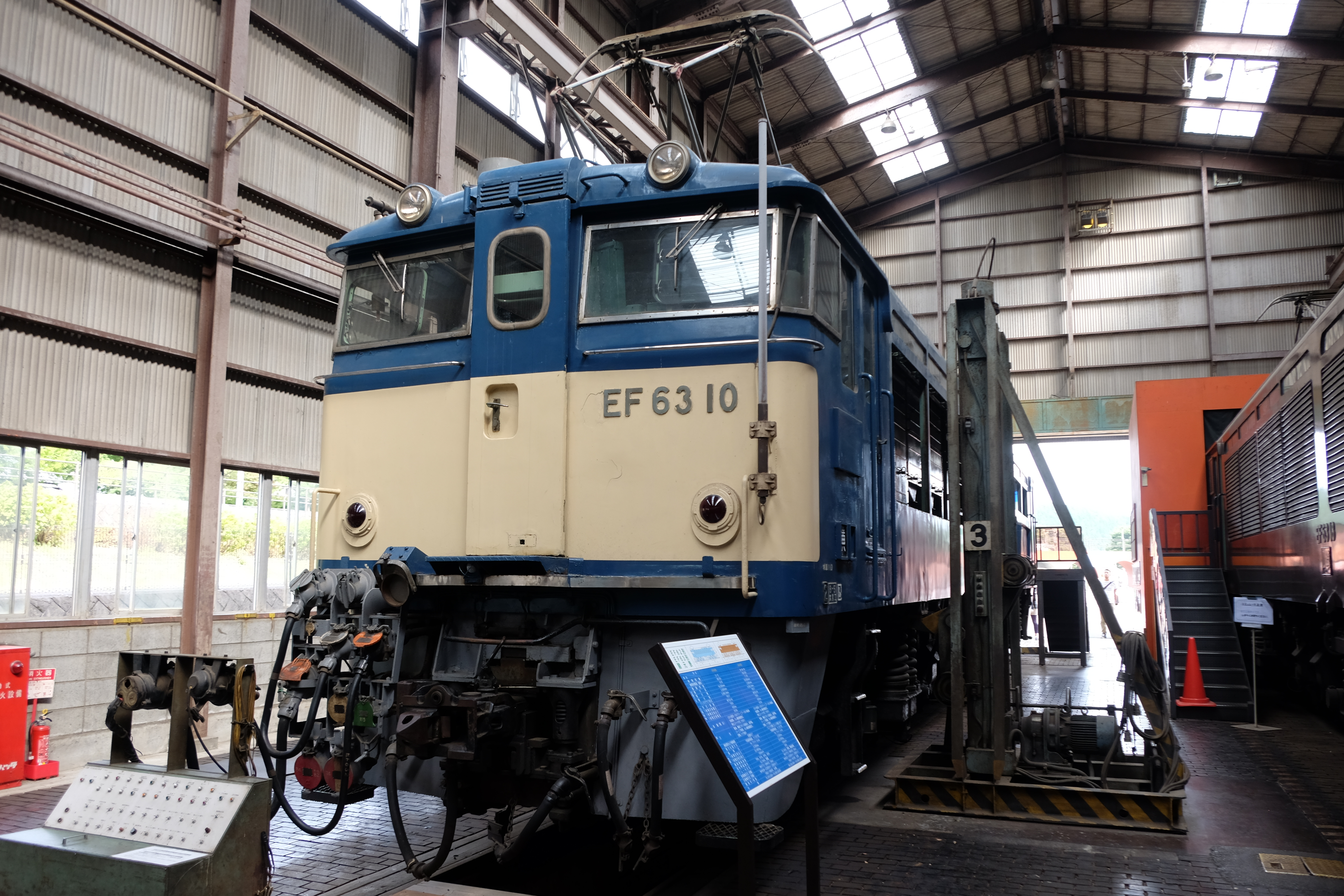 EF63 Electric LocomotiveUsui Pass Railway Heritage Park, Gunma prefecture